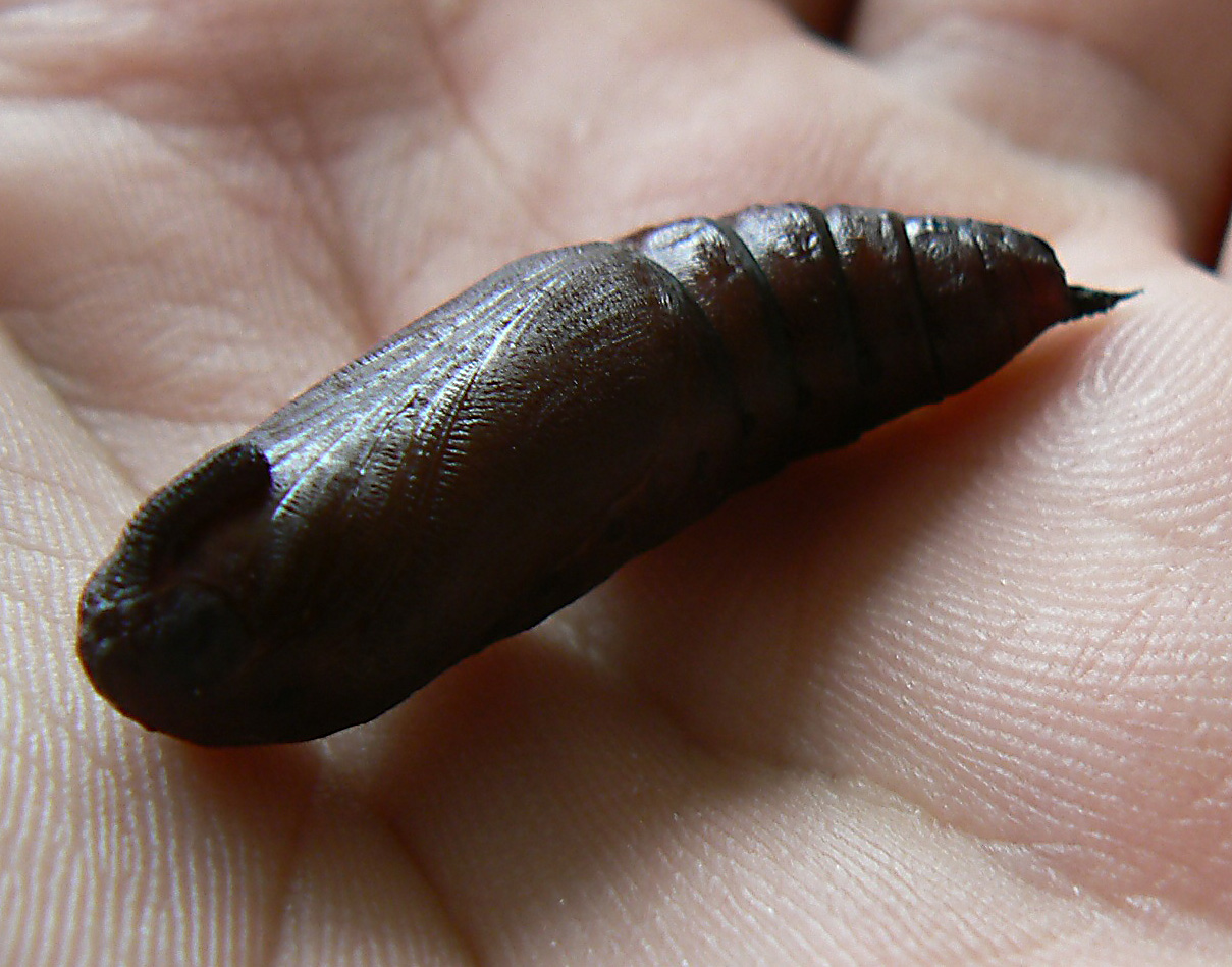 Sphinx pinastri pupa